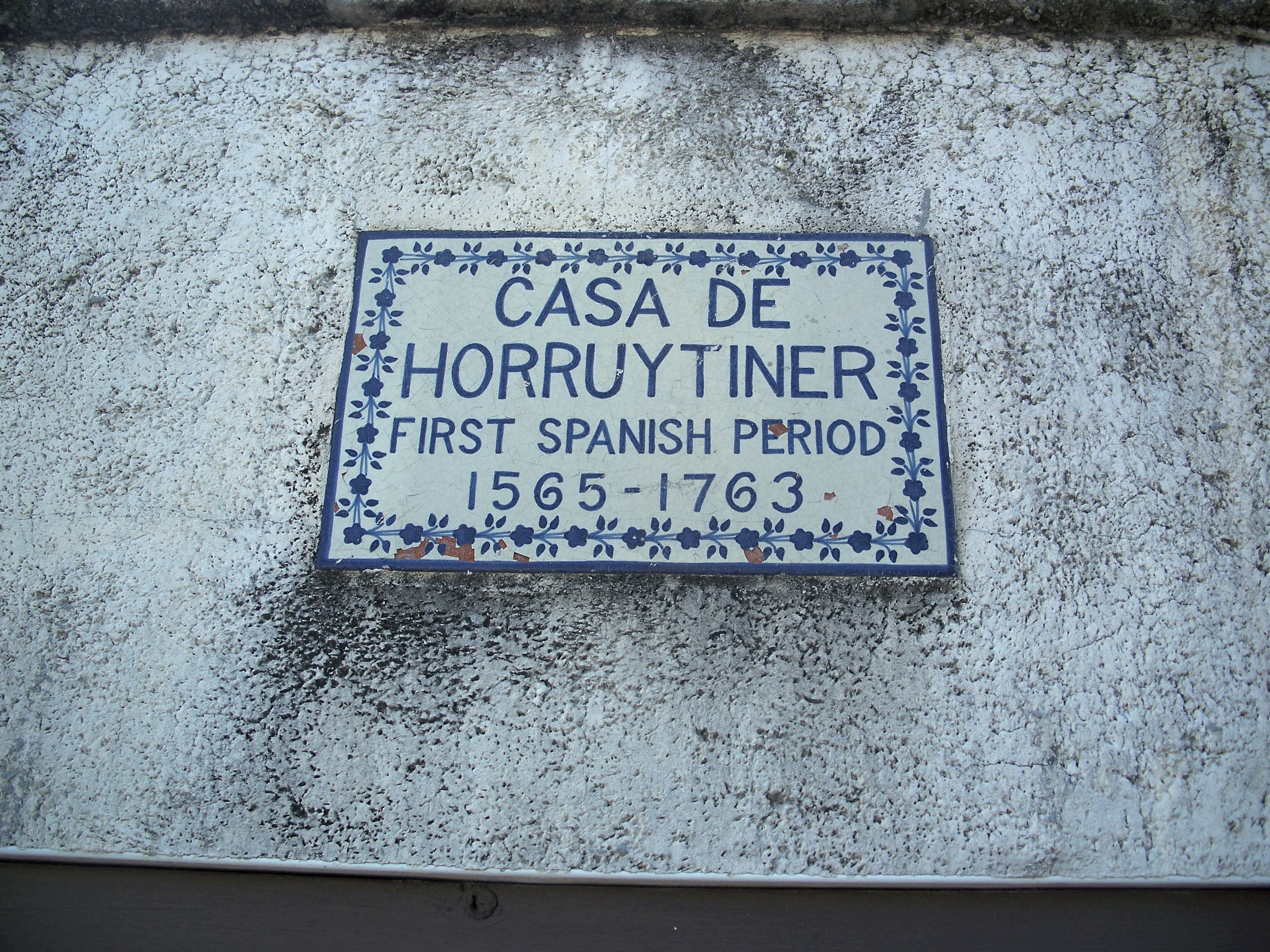 St. Augustine, Florida: Sign on the Lindsley House.